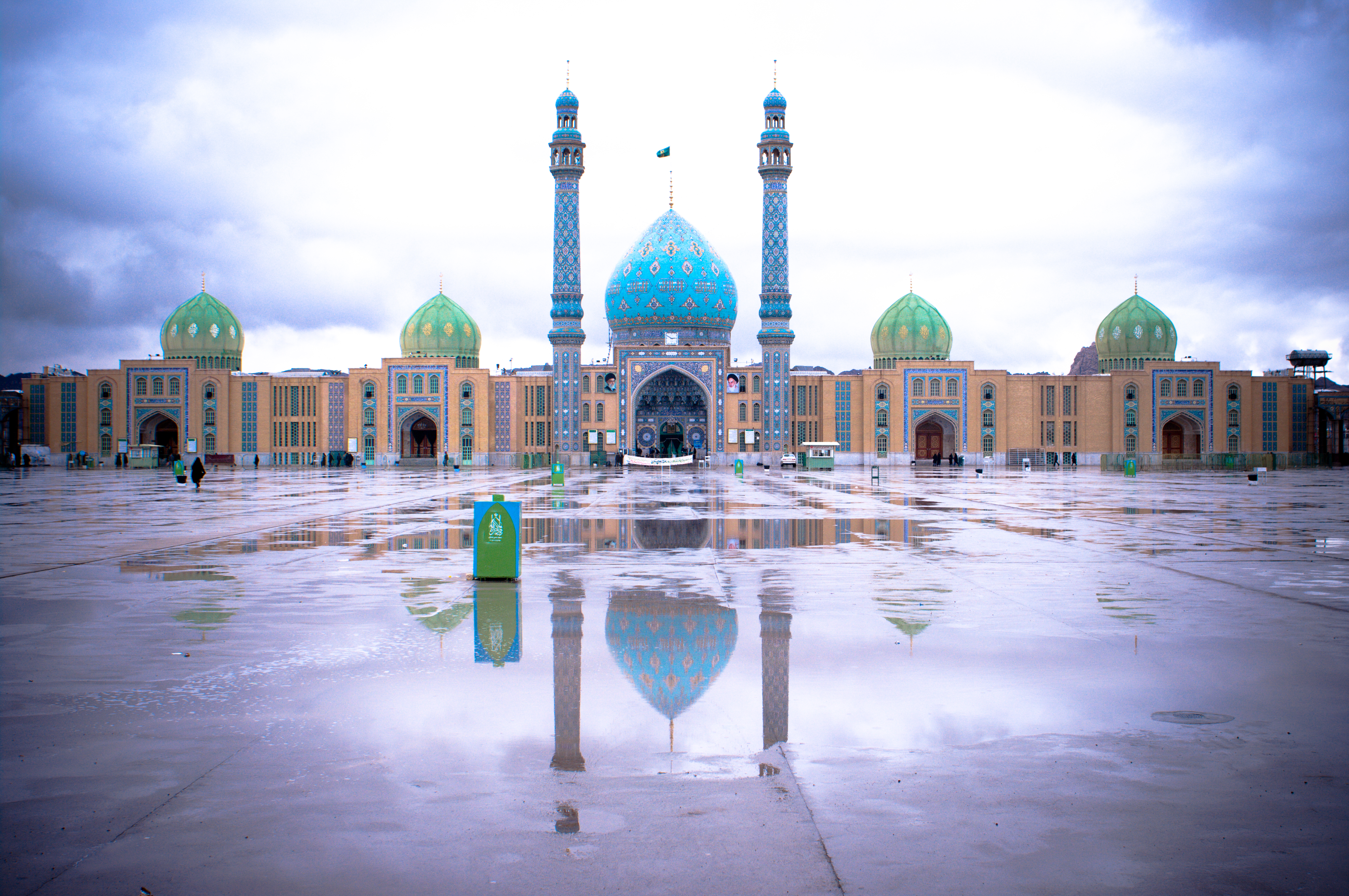 Jamkaran Mosque is a popular pilgrimage site for Shi'ite Muslims. Local belief has it that the Twelfth Imam (Muhammad al-Mahdi) — a messiah figure Shia believe will lead the world to an era of universal peace — once appeared and offered prayers at Jamkaran.